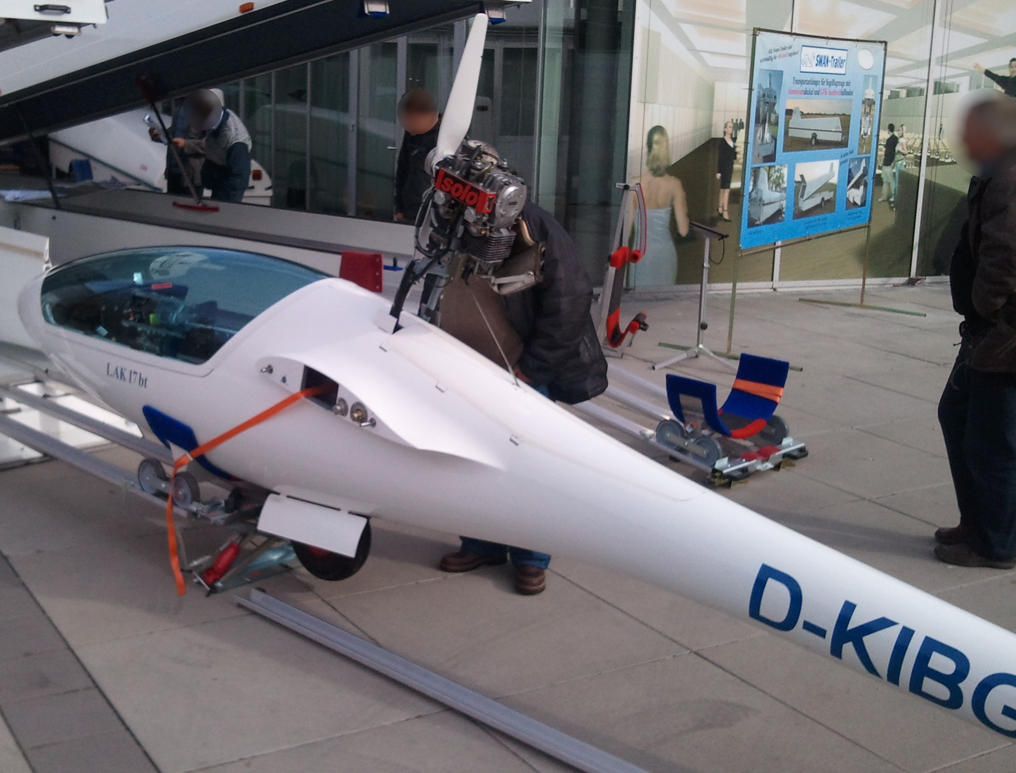 LAK-17bt glider of lithuanian manufacturer Sportinė Aviacija at the "Deutscher Segelfliegertag 2010", Ulm, Germany.